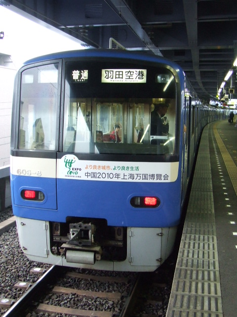 Model 600 -EXPO 2010 Shanghai China-, Keihin Electric Express Railway, Japan